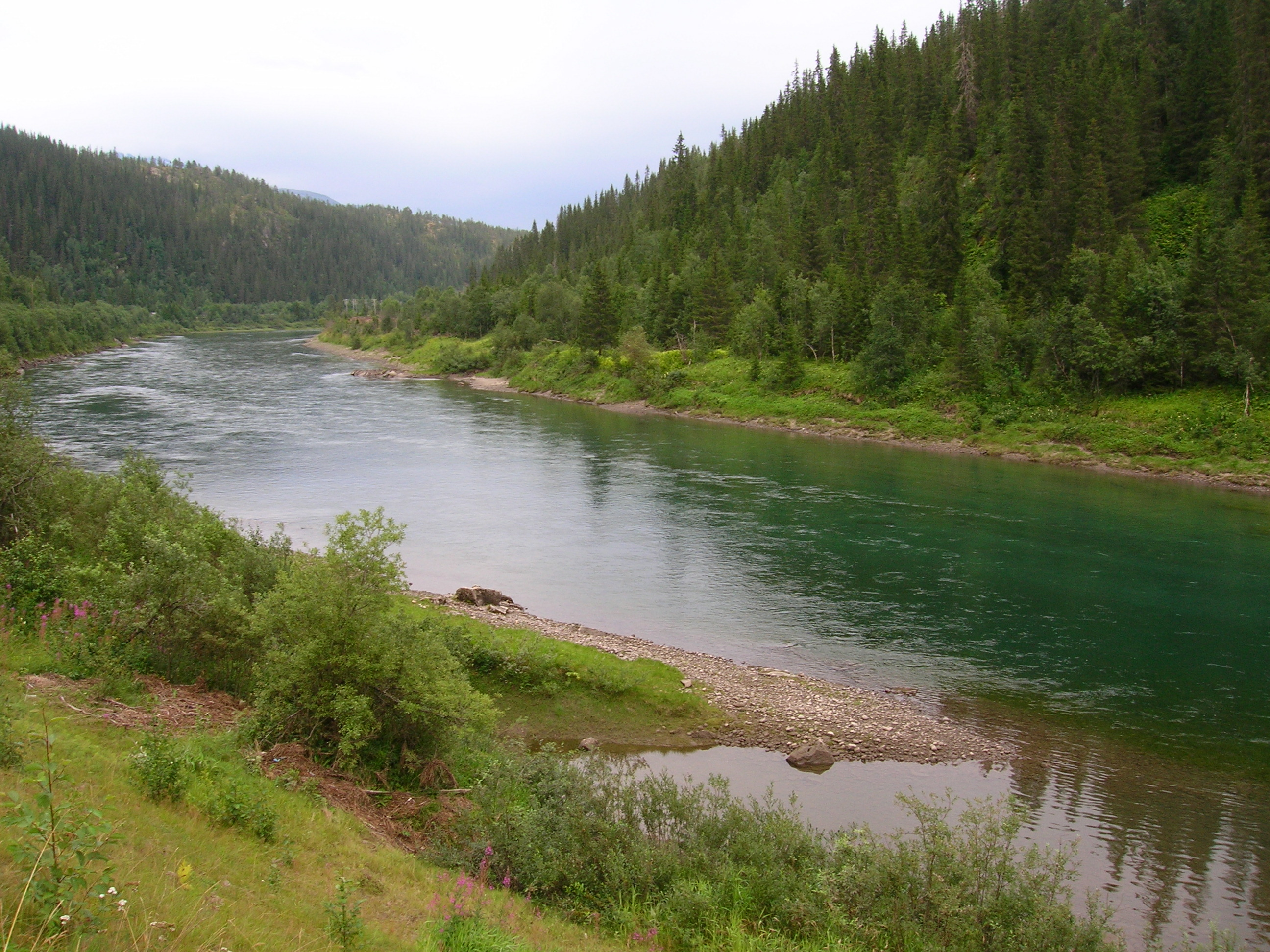 Ranelva seen from Illhøllia, south of Nevermoen in Dunderlandsdalen. Rana municipality, county of Nordland, Norway, Photo 6 August, 2007 with a Nikon Coolpix 5600 5,1 Megapixel camera.